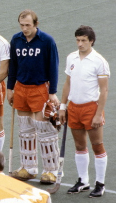 Vladimir Pleshakov (left) and Leonid Pavlovski (right) at the 1980 Olympics